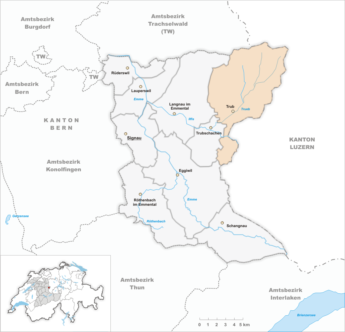 Municipality Trub